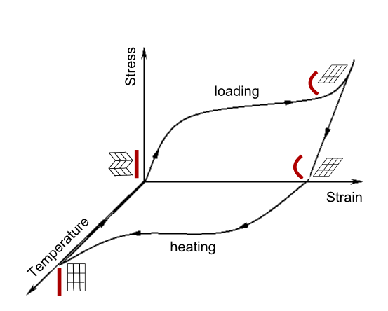 Curves show changes in shape (red stick) and in crystalline structure (grid) of a shape memory alloy due to its loading and heating.